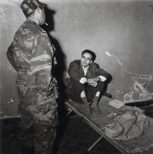 Arrest of Larbi Ben M'hidi (Algiers, Algeria) (February 25, 1957).